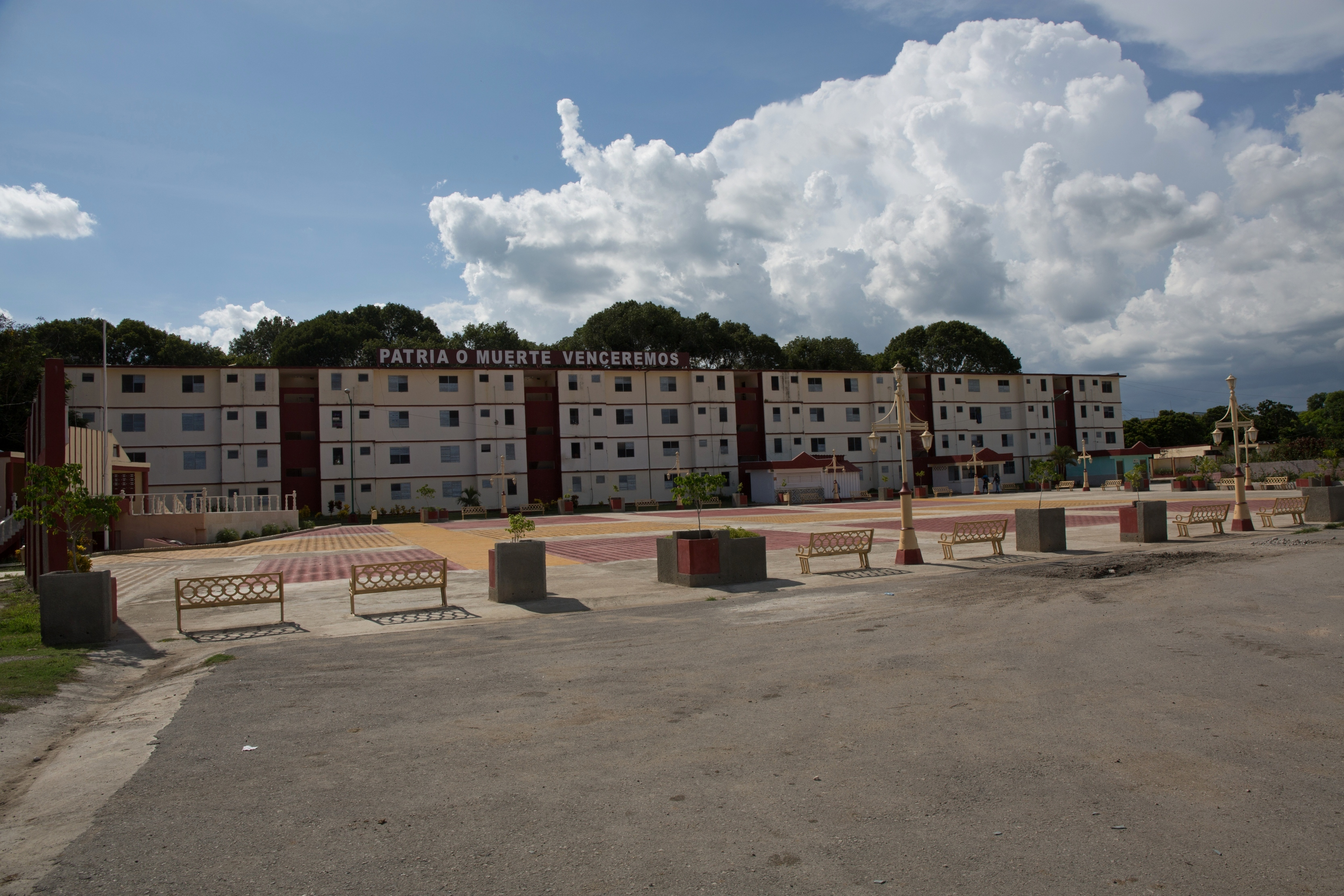 La Yaya, capital of the municipality Niceto Perez, Guantánmo, Cuba